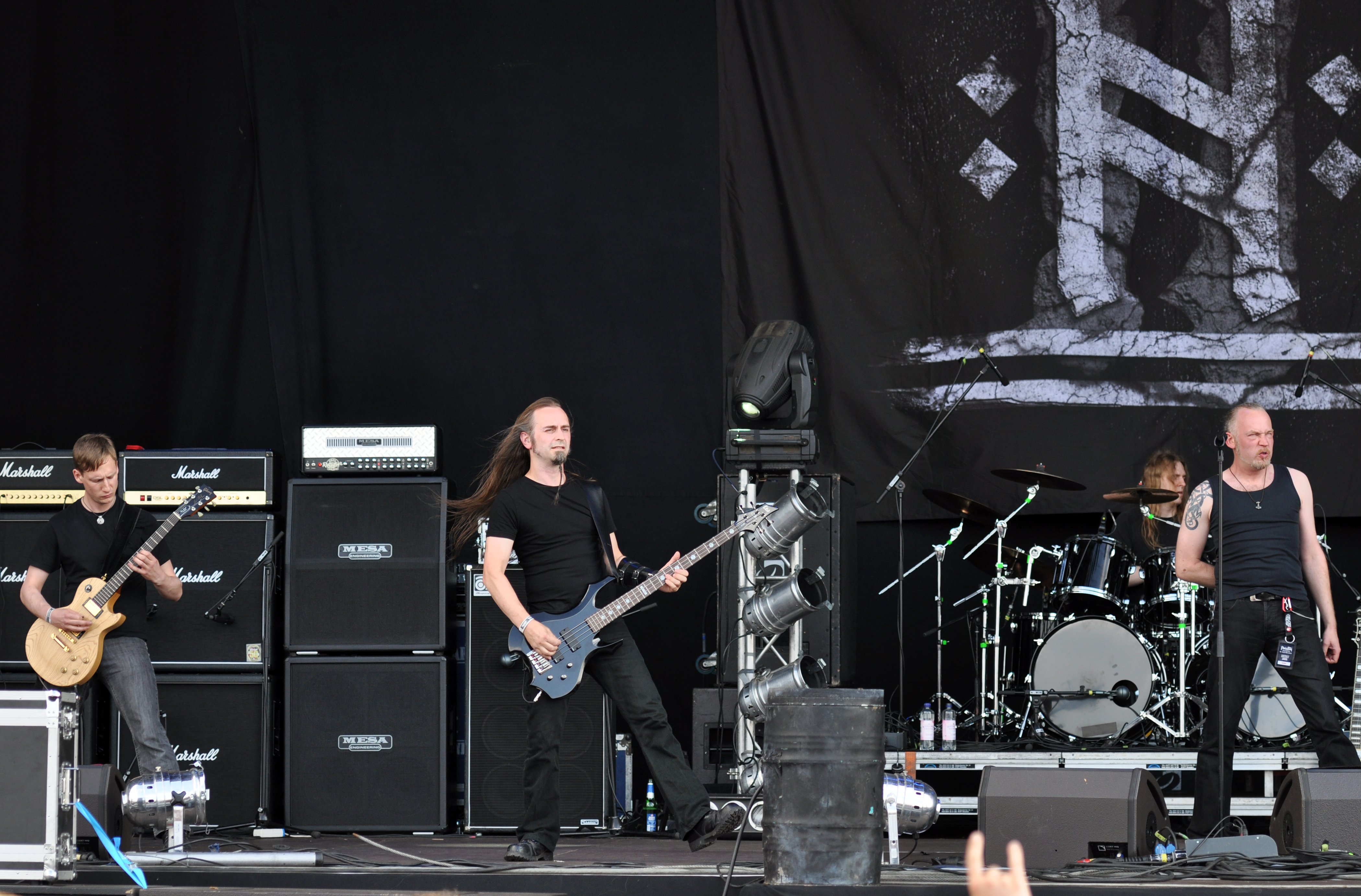 Helrunar at Party.San Metal Open Air 2013